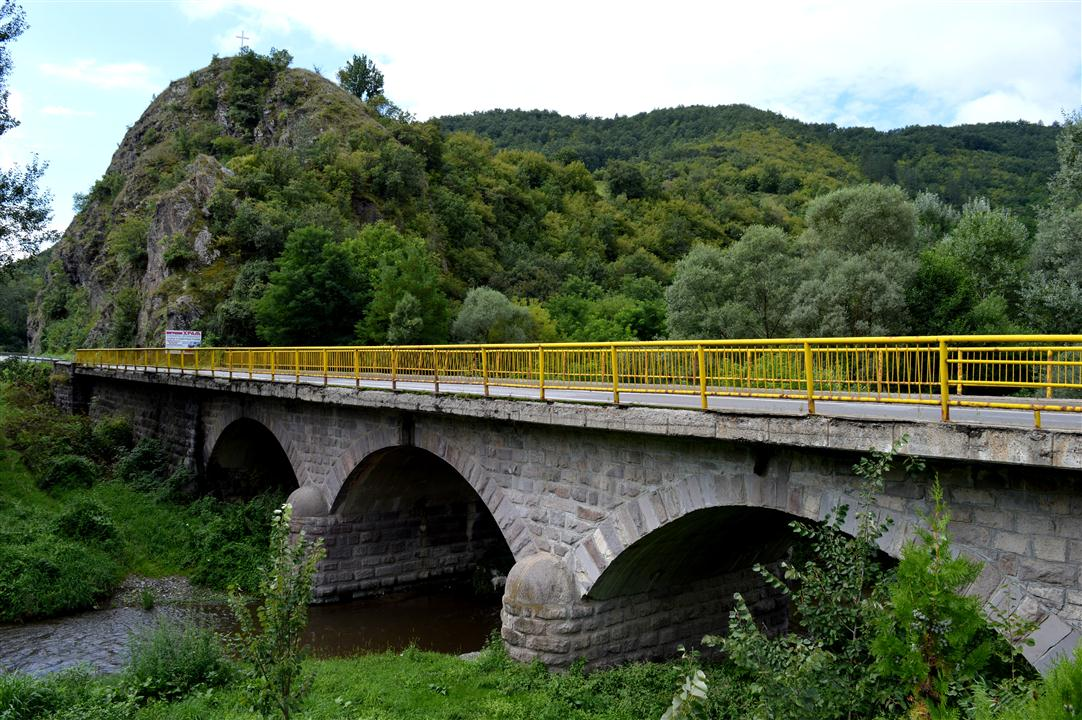 Raska Municipality -Bridge in Brvenik